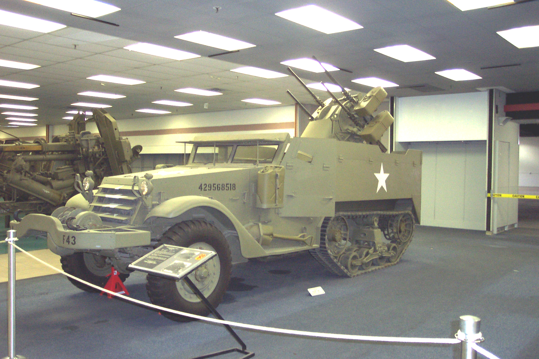 M3 Half-track that used to be in the Air Defense Artillery Museum in Ft. Bliss (now moving to Ft. Sill)